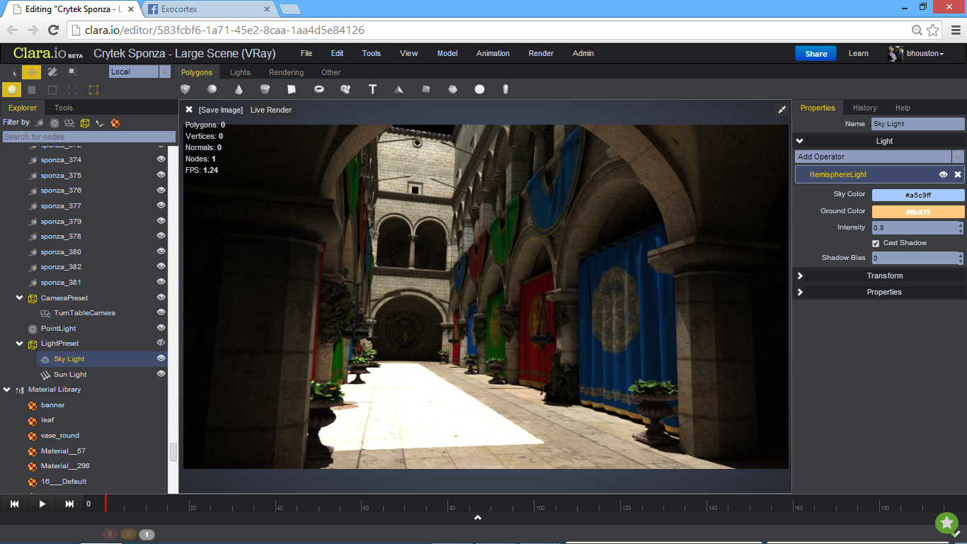 A screenshot of the application with a V-Ray rendering of the standard Crytek Sponze 3D model.